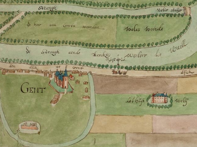 Part of bigger map "The Area between Gendt and Ubbergen, with breaktrough of the river Waal between Gendt and Erlecom" (Netherlands)